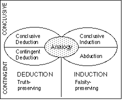 Types of Inferences made using ITL